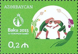 Baku 2015. First European Games.(2nd edition) N 1215 - 20 qapik – Wrestling